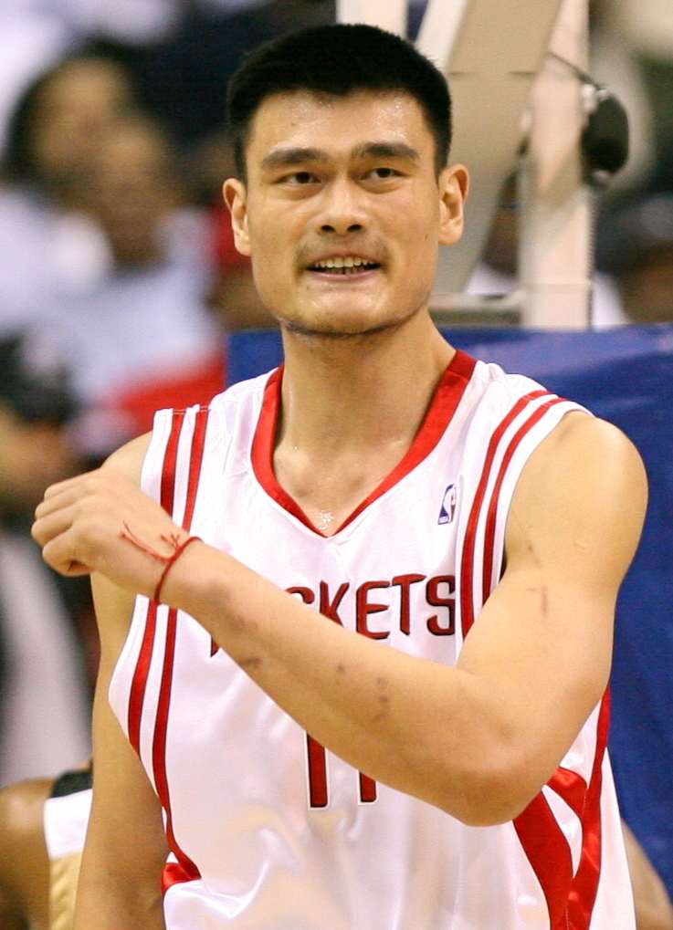 Yao Ming playing against the Washington Wizards